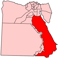 Map of Egypt showing Al Bahr al Ahmar (Red Sea) governorate. Made by User:Golbez based on PD maps.